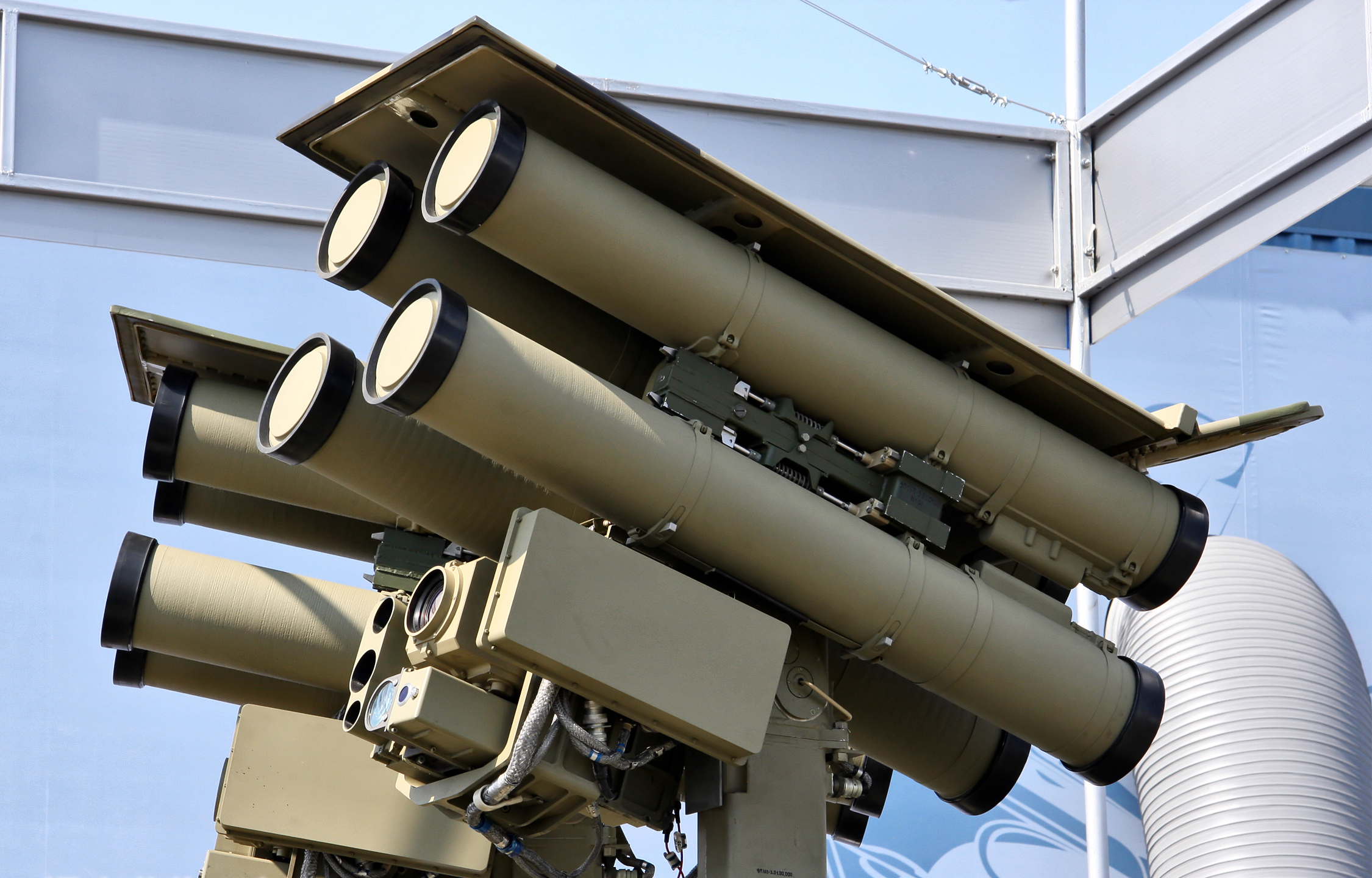 Kornet-EM at MAKS-2011